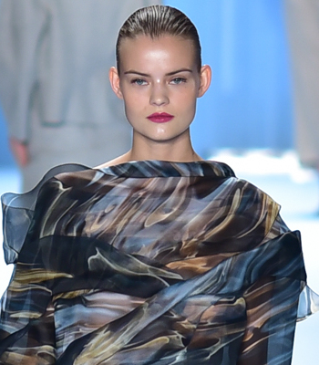 Russian model Ekaterina Grigorieva on Carolina Herrera FW15